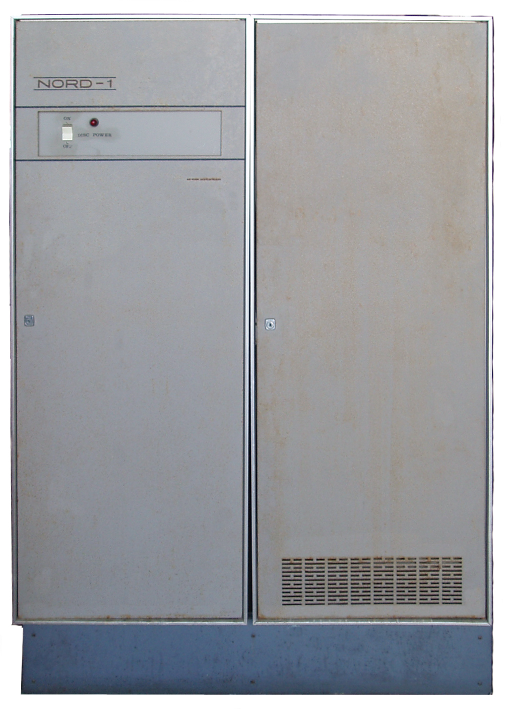 Picture taken by Tore Sinding Bekkedal of a NORD-1 minicomputer in 2006, in a barn in Gjerdrum, Norway. The machine is to be rescued by the Norwegian Computer History Society.